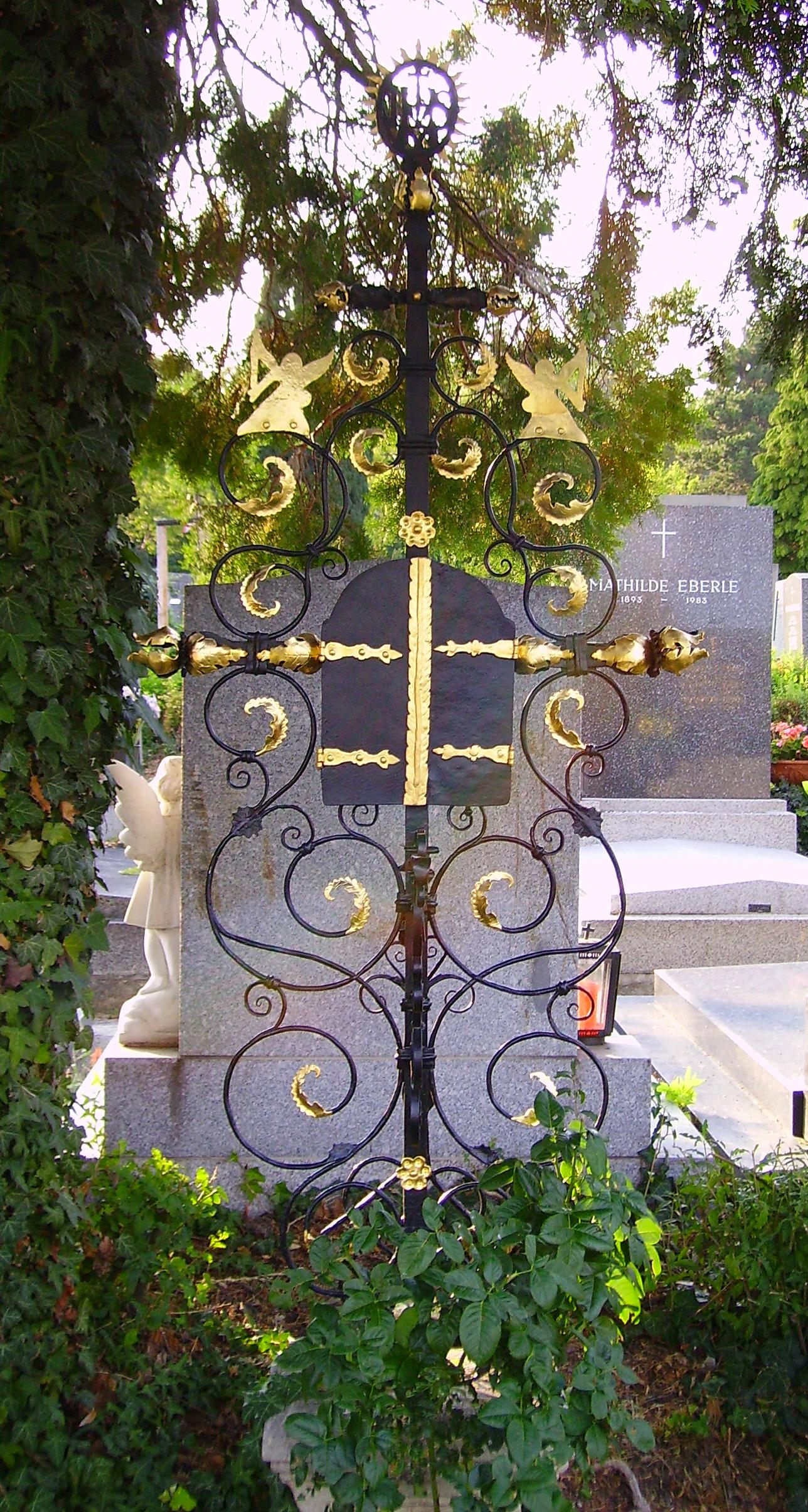 Grave of Thomas Bernhard, Vienna, cemetery in Grinzing